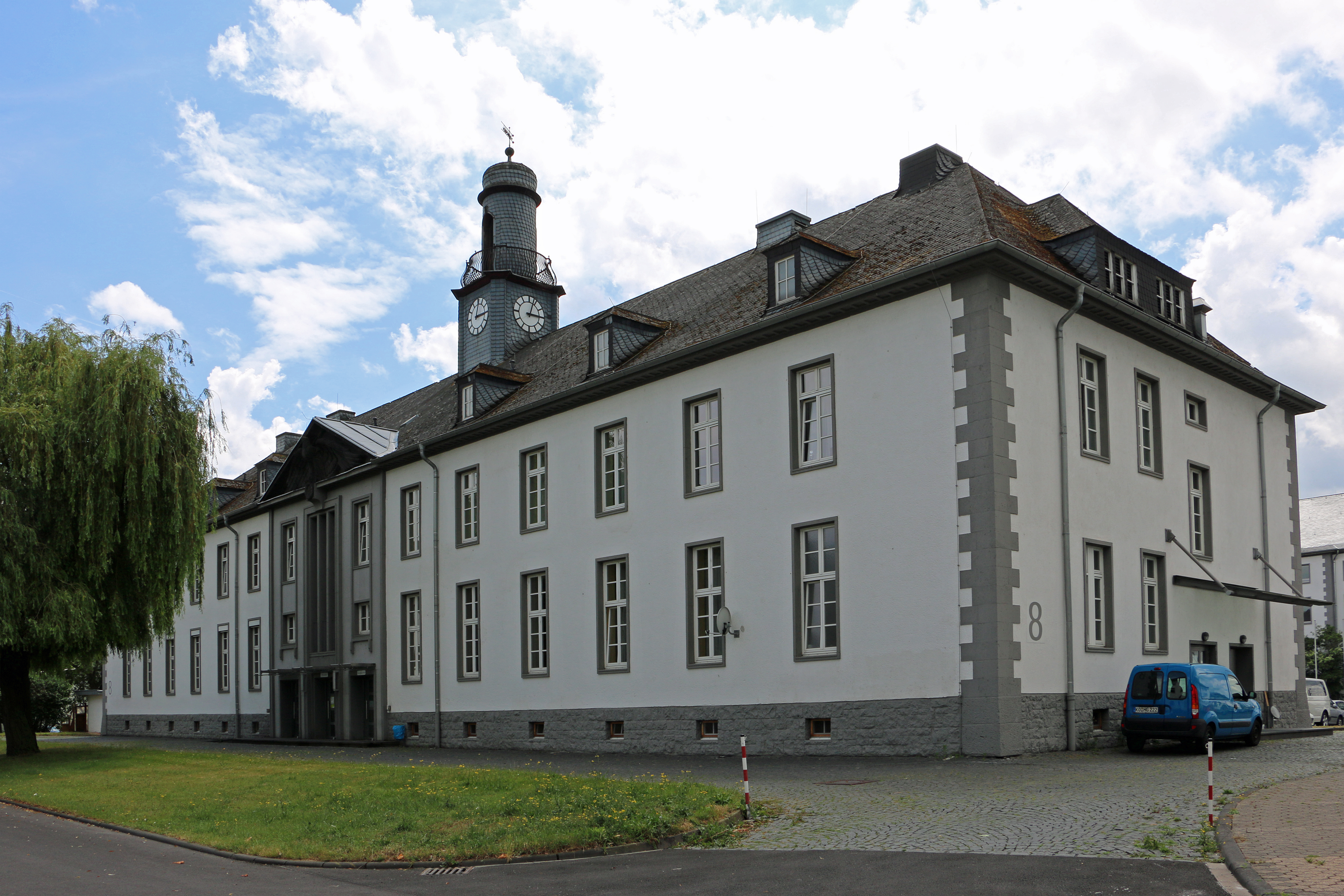 Falckenstein-Kaserne in Koblenz